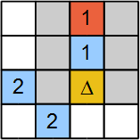 an example of tentaizu 4x4 for inconsistency in try-and-check method.